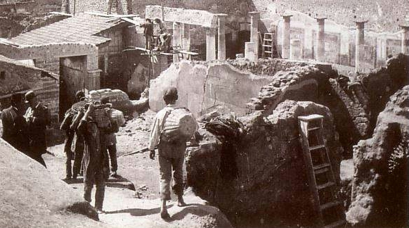 Excavations ans restaurations at the Casa dei Vettii at Pompeji at the End of the 19th Century.